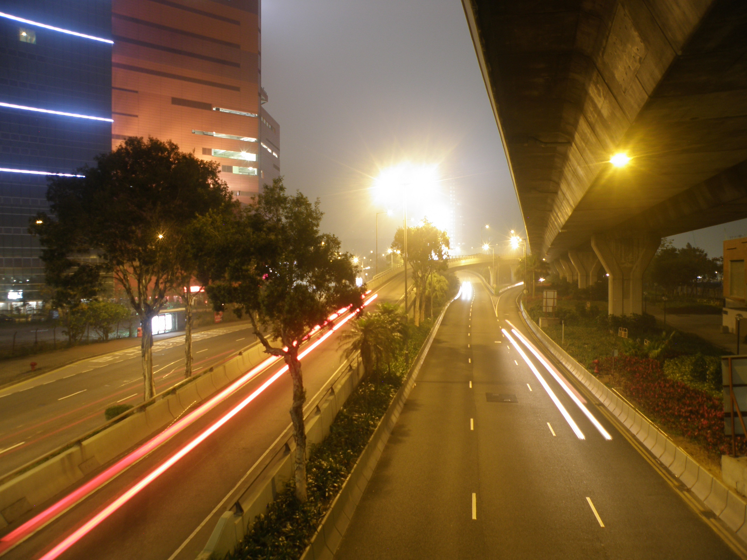 Kai Fuk Road in Kowloon Bay, Hong Kong.